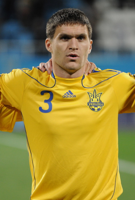 Yevhen Serhiyovych Selin before kickoff of a football match